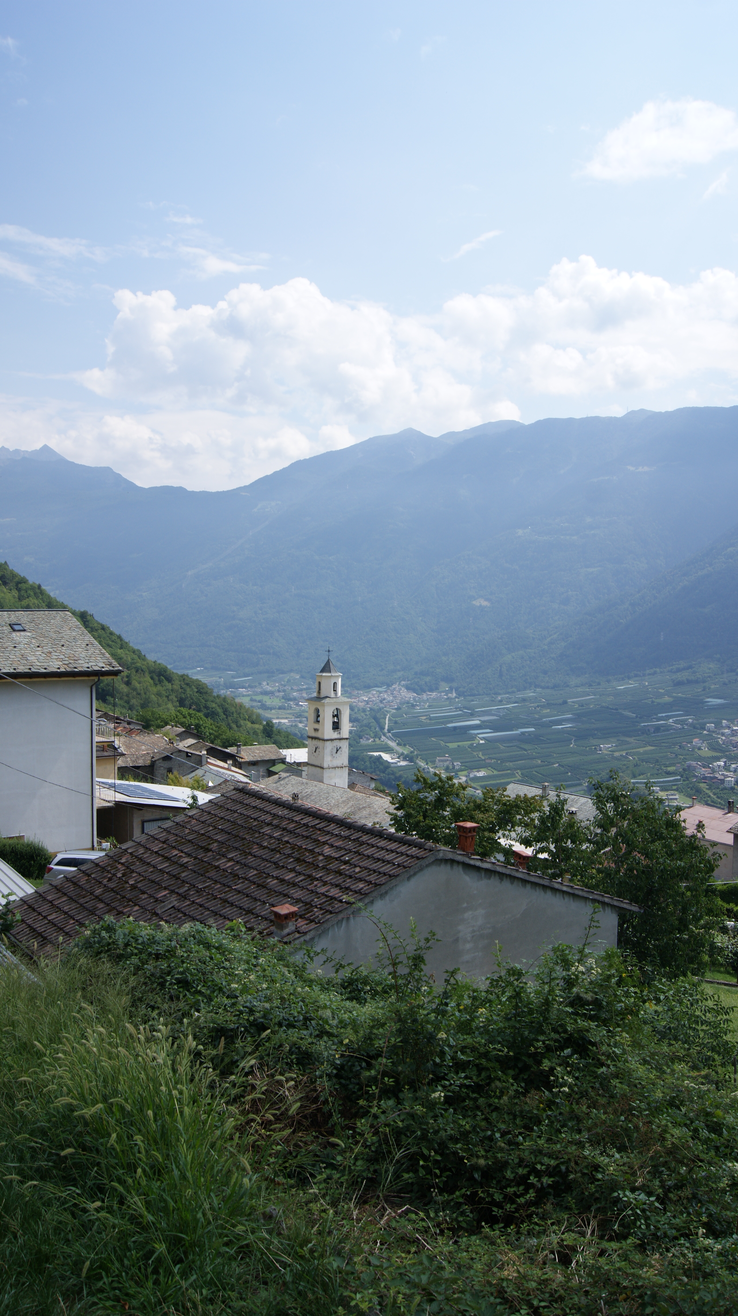 Baruffini, part of Tirano in Italy. In the background Villa di Tirano.